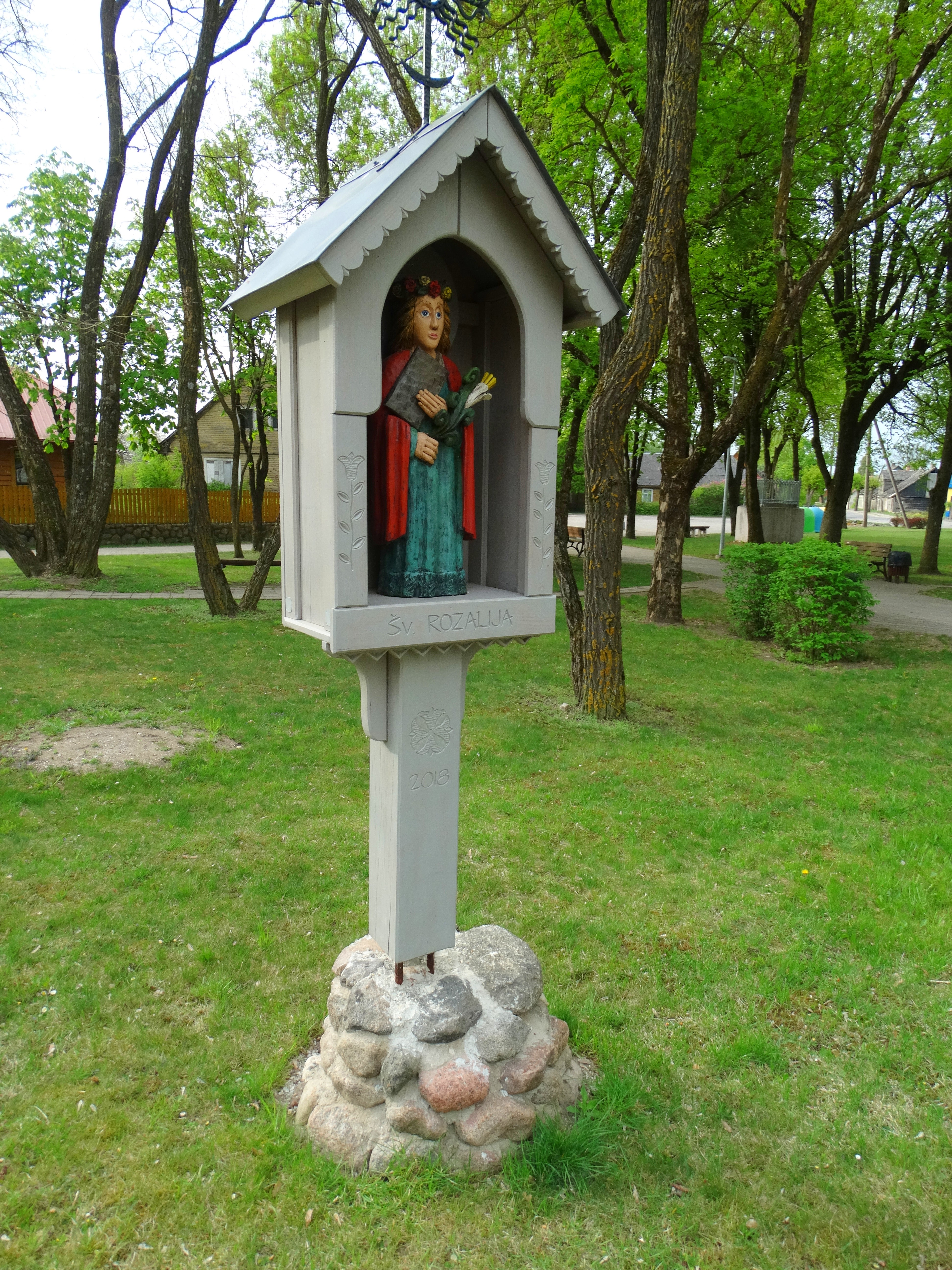 Saint Rosalia, Rozalimas, Pakruojis District, Lithuania